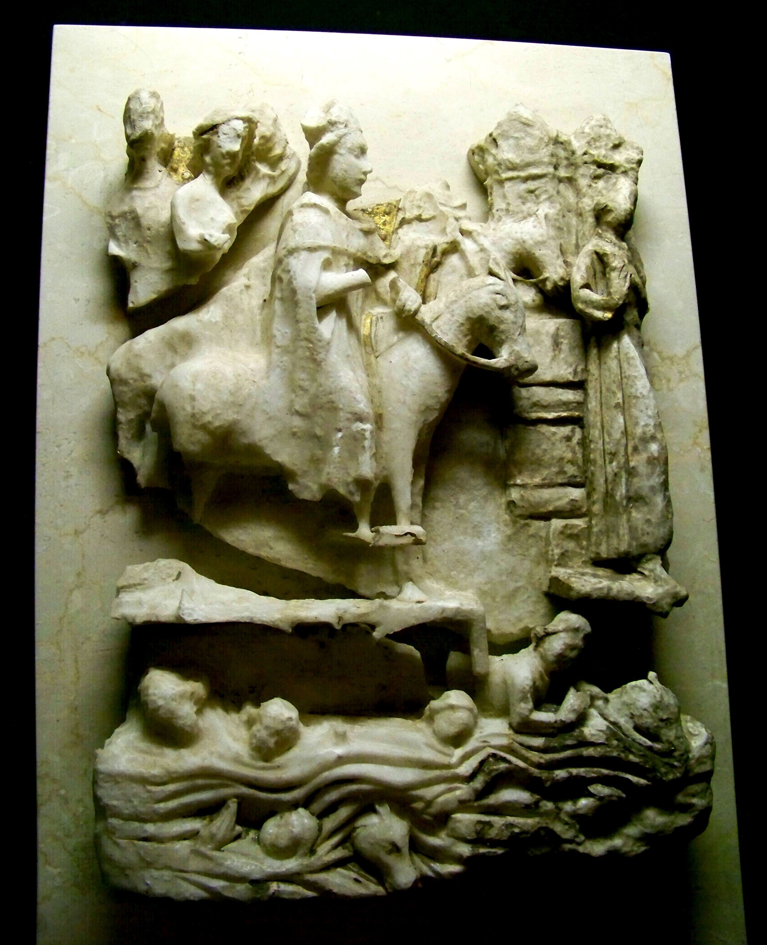 Medieval carved plaque showing saint William of York as he cross the River Ouse, and the Ouse bridge collapses but no one is killed.